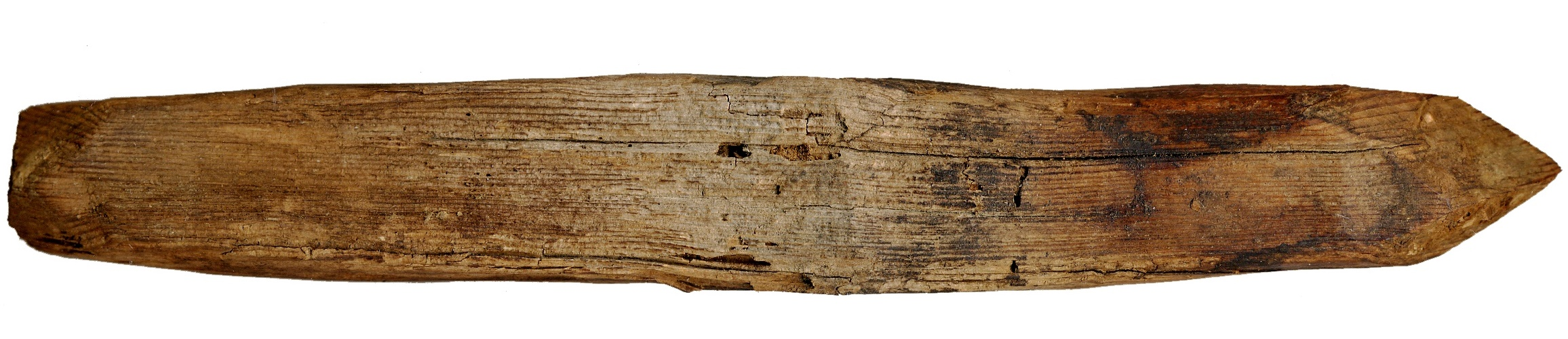 400 years old spruce wooden nail from the Leiter Hube in St. Oswald in Bad Kleinkirchheim, a small village in the Central Eastern Alps (Nock Mountains) Carinthia / Austria / EU.